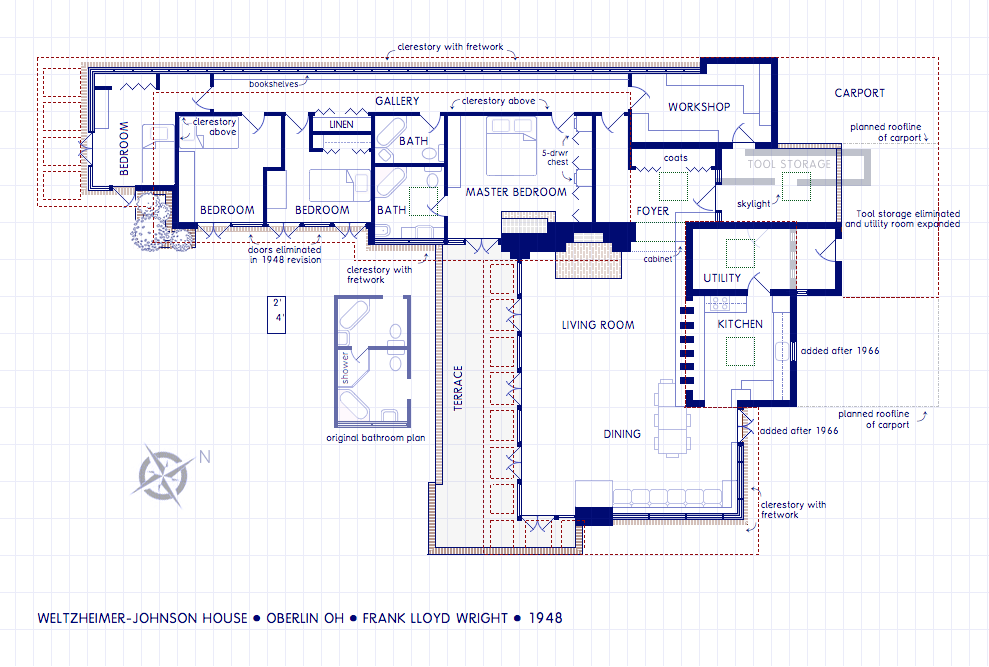 The Weltzheimer-Johnson house, showing the revised plan of 1948 and certain later additions. Designed by Frank Lloyd Wright.